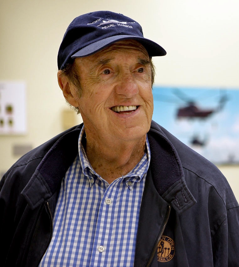 Actor Jim Nabors during a visit to Marine Corps Base Hawaii April 22nd, 2010.